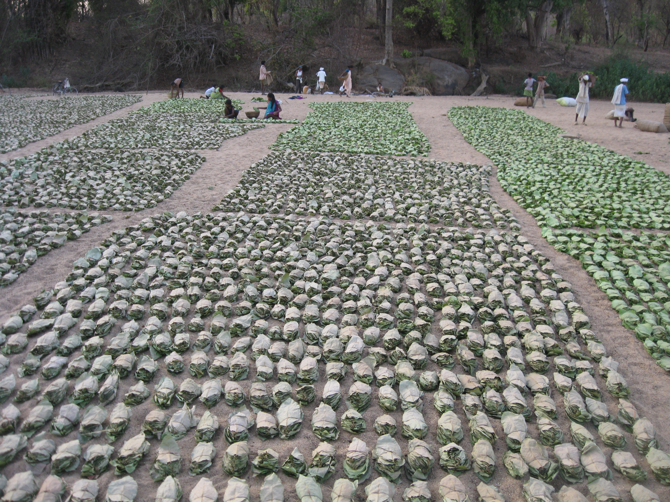 Tendu leaves are plucked, dried and bundled in many parts of India in summer season. These leaves are used to make beedi/cigar. Leaves are rolled & filled with tobacco.